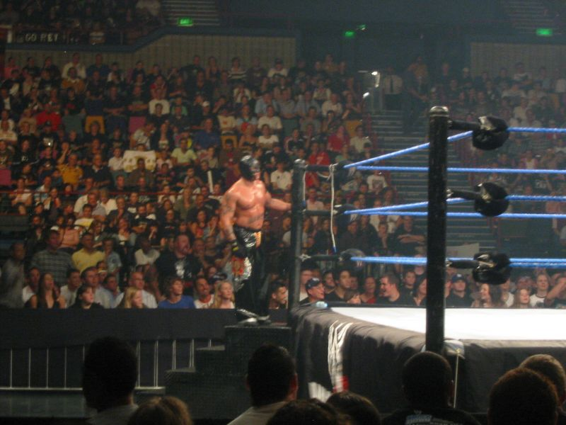 Taken on 5 March at the Boondall Entertainment Centre